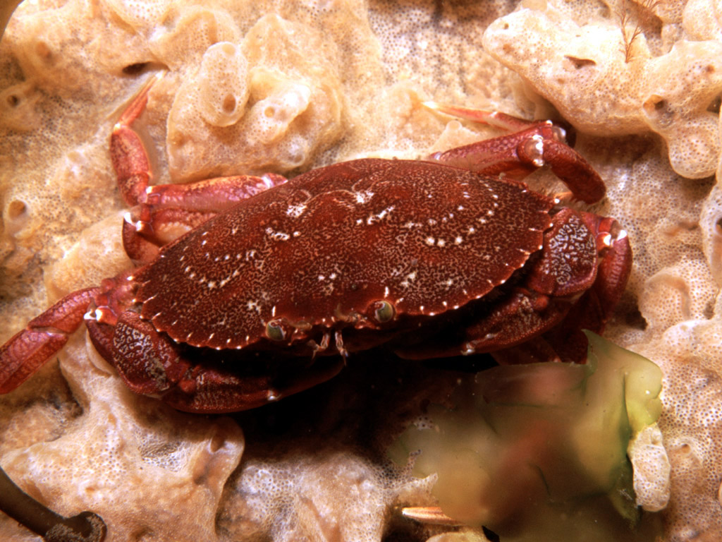 Image JM_SAB_MA022. Rock crab on tunicate colony of Didemnum attached to rock substrate. Seabed of large boulders and cobbles in Sandy Bay off the eastern end of Old Garden Beach, Rockport, MA (approx. 42 deg 39.58 min N lat, approx. 70 deg 36.13 min W Lon). Water depth less than 5 m. Water temperature 14 deg C. June 18, 2006. Observer: Janet MacCausland. Photo credit: Janet MacCausland.